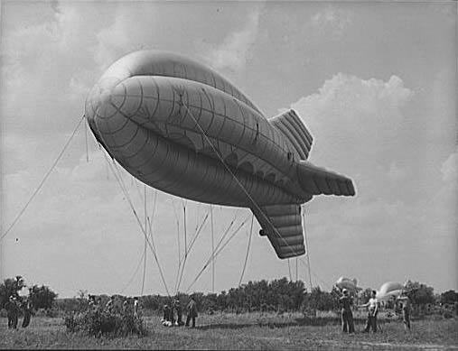 Parris Island. Marine Corps barrage balloons. Up she goes. A barrage balloon takes to the air under the capable handling of a Marine Corps ground crew at Parris Island, South Carolina. Special marine units assigned to the work have made the balloon barrage an effective method of preventing enemy air attacks on important locations.